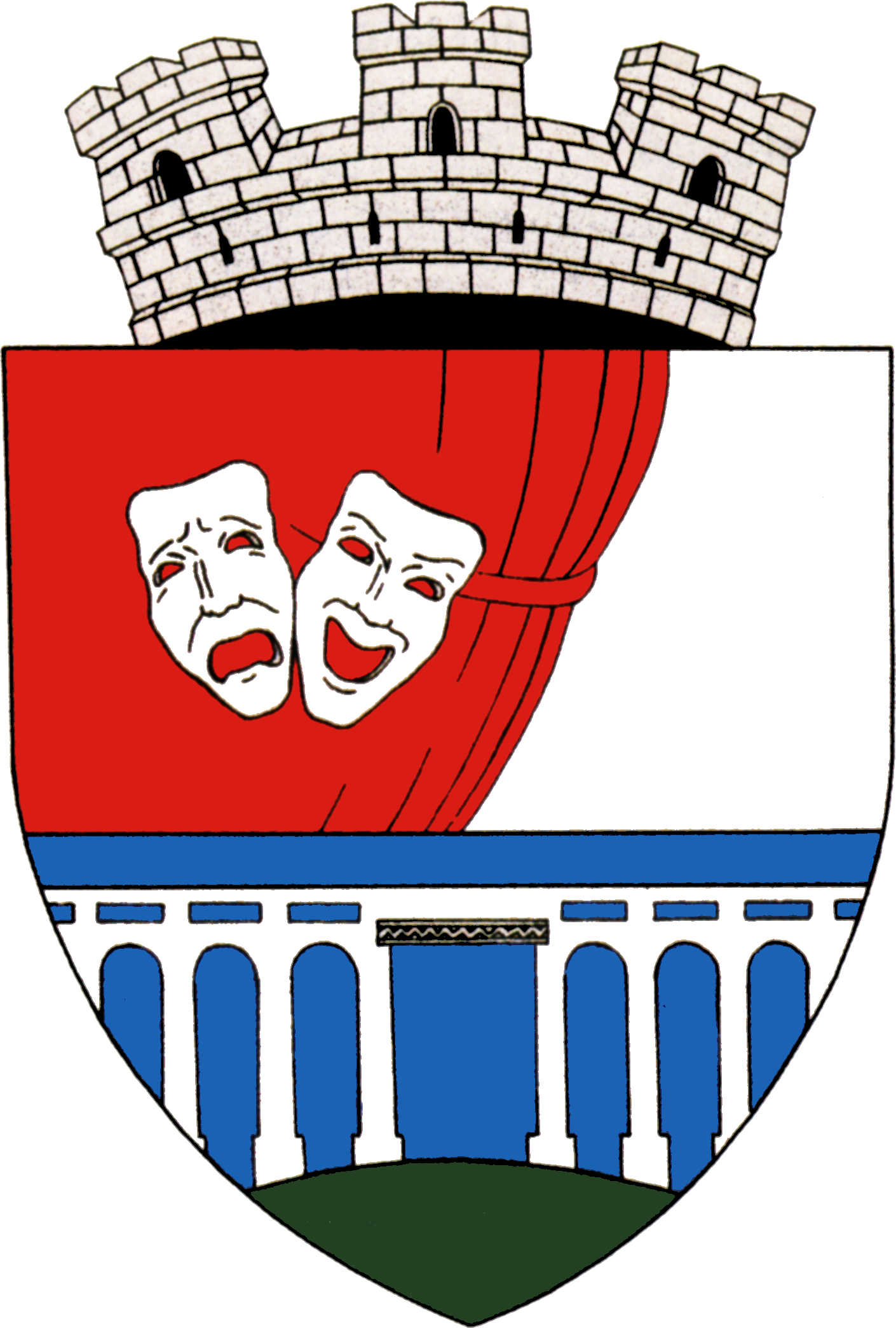 Coat of arms of Oraviţa, Romania